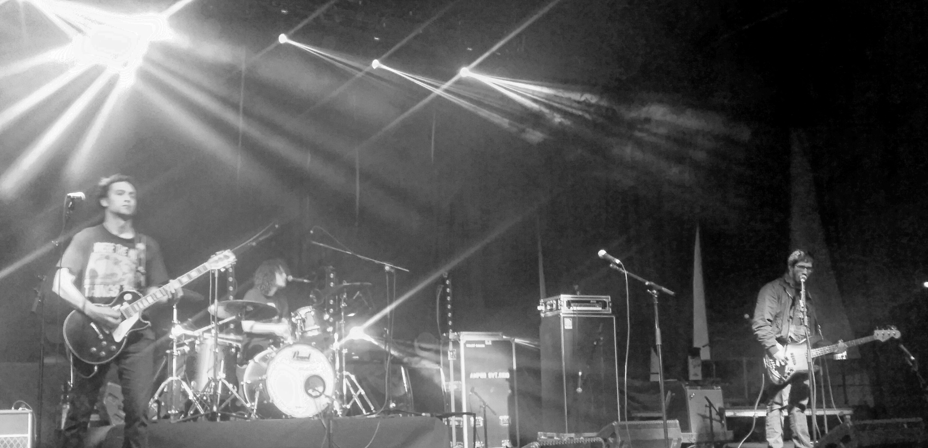 Israeli Metal band Cain And Abel 90210 live in Tel Aviv 2.5.2016